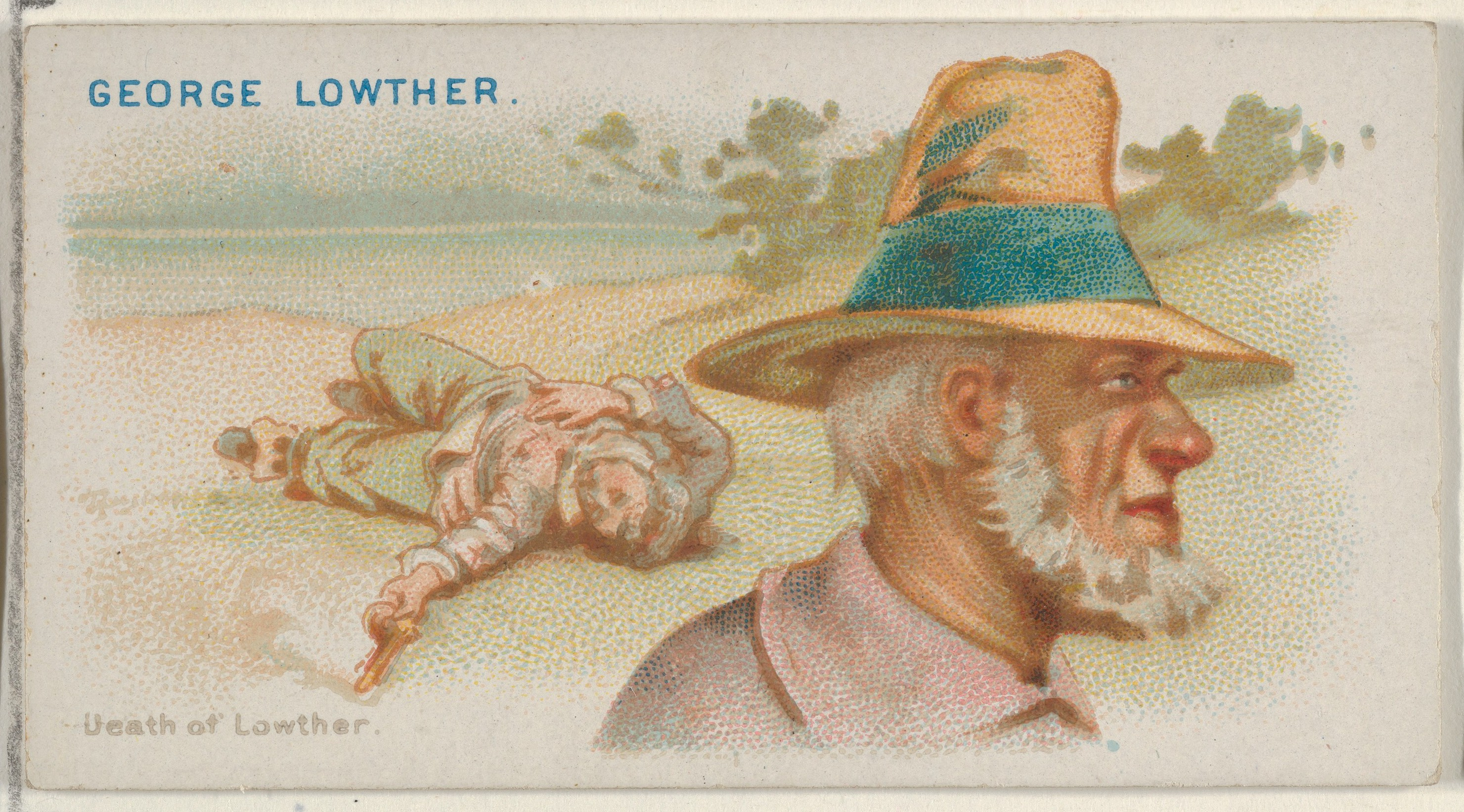 Print; Prints